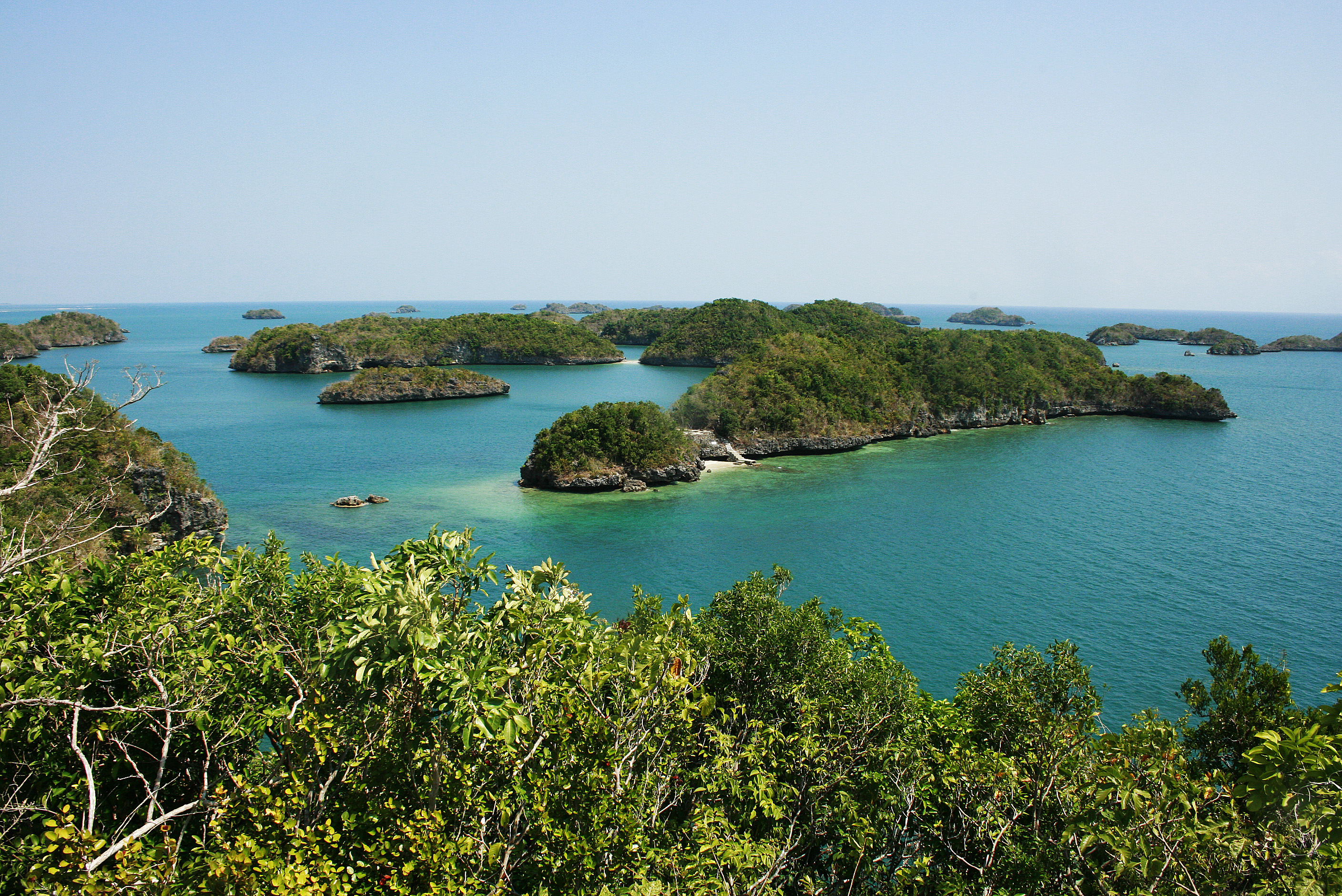 View from atop Martha Island 2